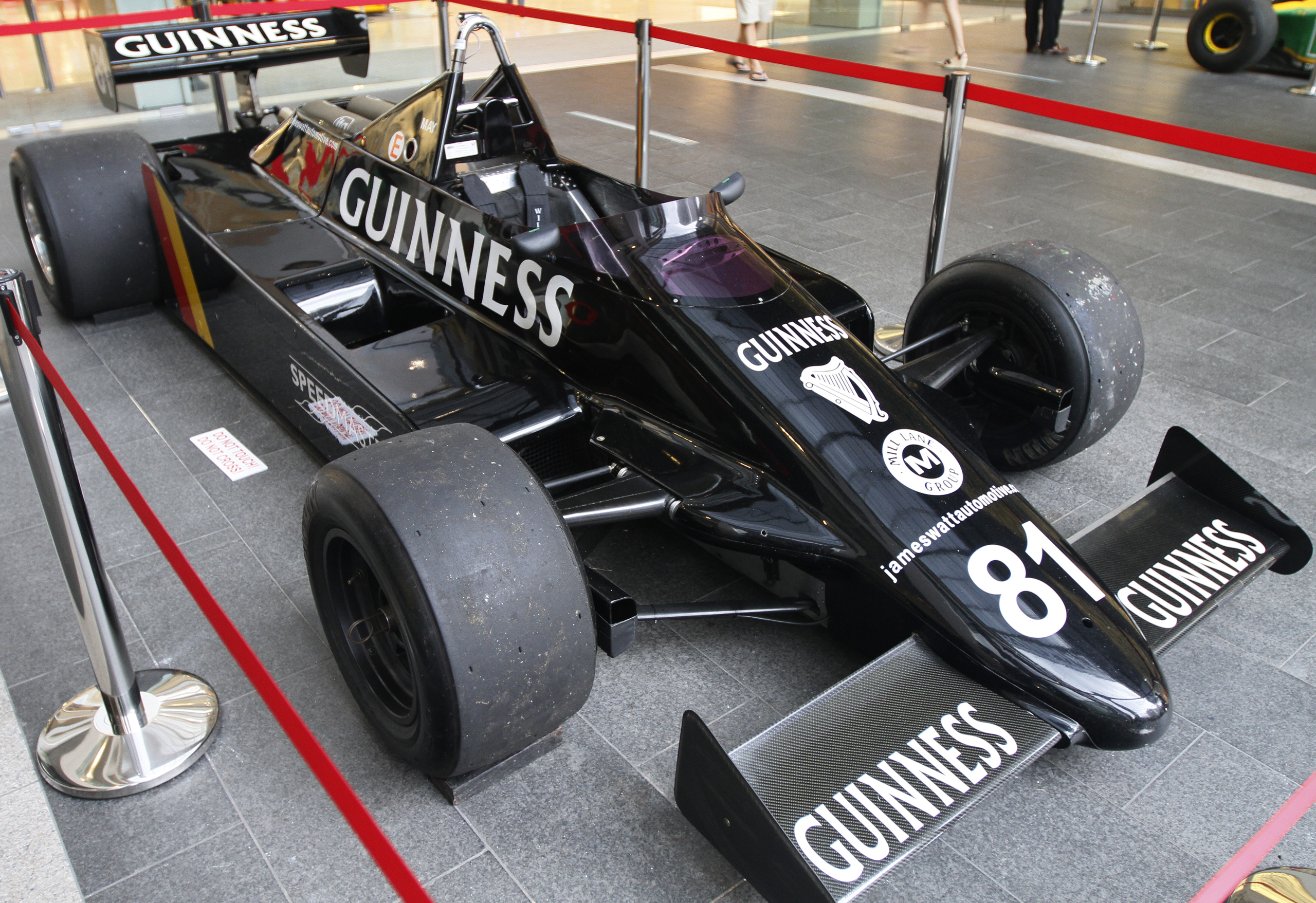 Pavilion Pit Stop 2010: March 811 (Derek Daly's car)